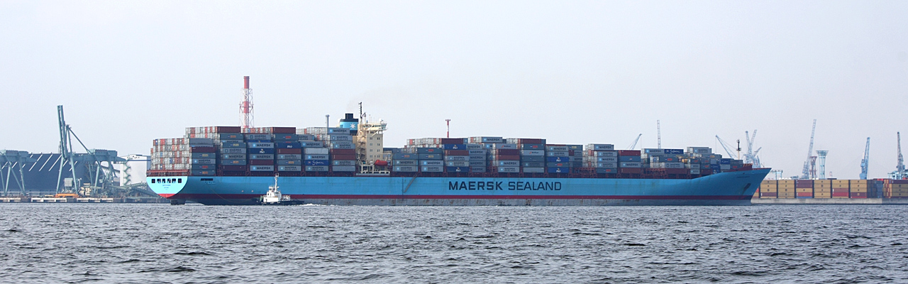 Name: SOVEREIGN MAERSK, Mærsk container ship at Minami-Honmoku, Yokohama.